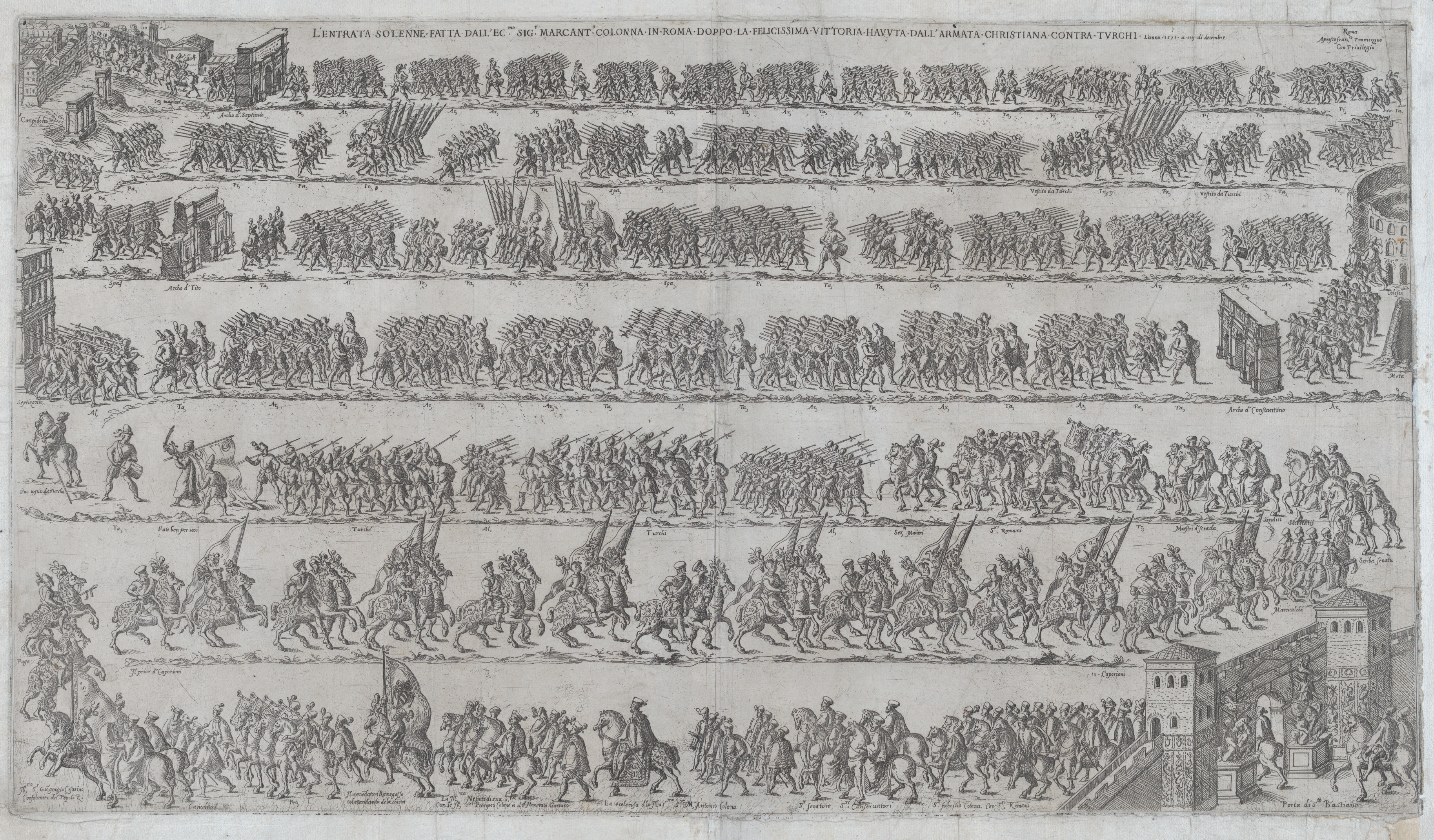 The entry of Marcantonio Colonna and the Christian army in Rome after victory at the battle of Lepanto, December 11, 1571 L'entrata solenne fatta dall'ec. Sigr. Marcantonio Colonno in Roma doppo la felicissima vittoria havvta dall' armata Christiana contra Turghi, l'anno 1571, a iiij decembre Publisher:Francesco Tramezzino (Italian, active Rome and Venice, 1526–died 1576) Published in:Milan Date:1571 Medium:Etching Dimensions:Plate: 15 15/16 × 28 1/8 in. (40.5 × 71.5 cm) Sheet: 18 3/4 × 29 1/16 in. (47.7 × 73.8 cm) Credit Line:Harris Brisbane Dick Fund, 1947 The procession is depicted in seven bands, increasing in size from the top to the bottom of the sheet. Figures include members of the Colonna Family, nobles, prisoners and Christian soldiers; landmarks shown include the Arch of Constantine and the Colosseum, among others.